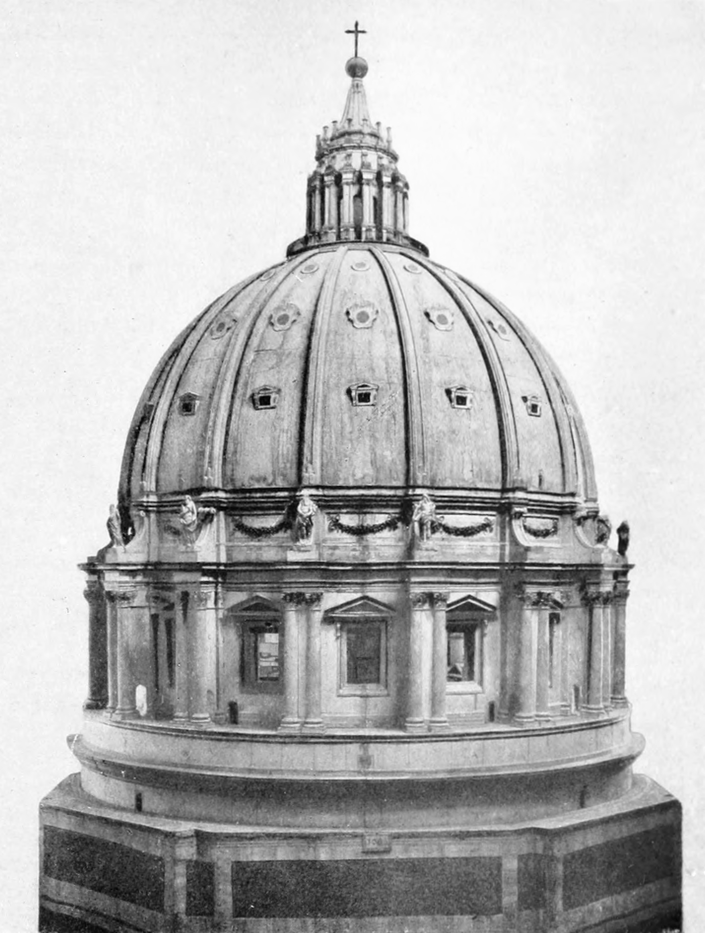 Illustrations from The Life of Michael Angelo by Romain Rolland, translated by Frederic Lees